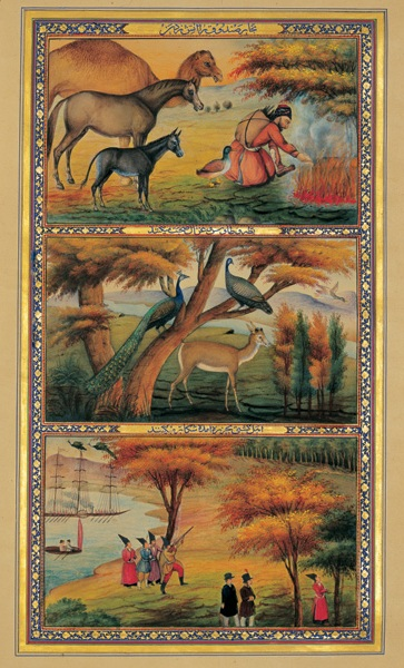 Illustration from Persian version of "One Thousand and One Nights"